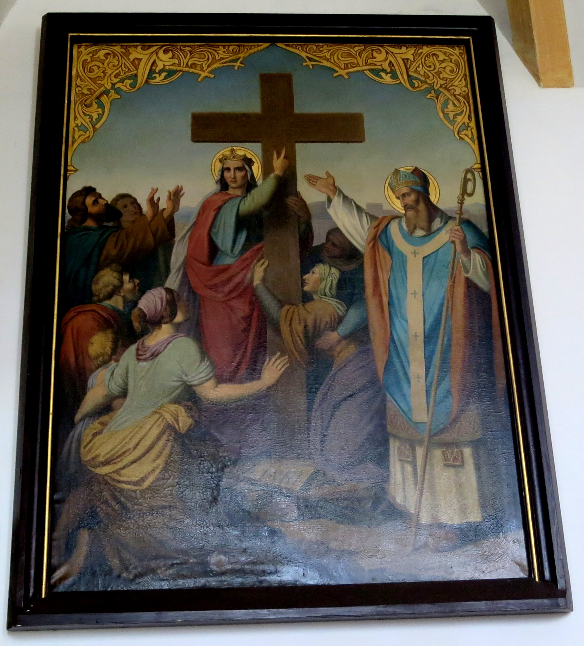 A little church, Holy Cross, in Enghausen near Mauern in Bavaria